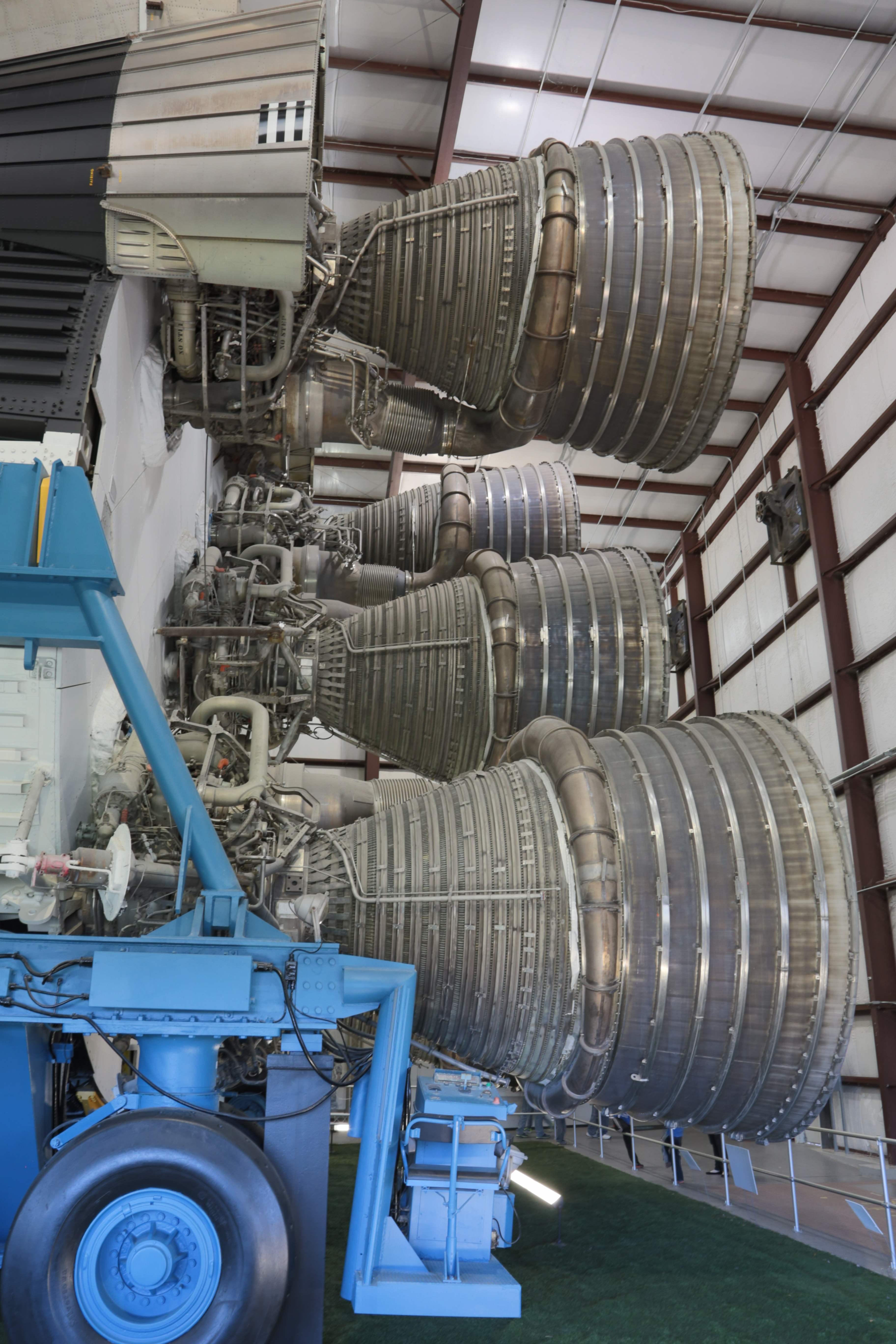 Space Centre Houston, Lyndon B. Johnson Space Center